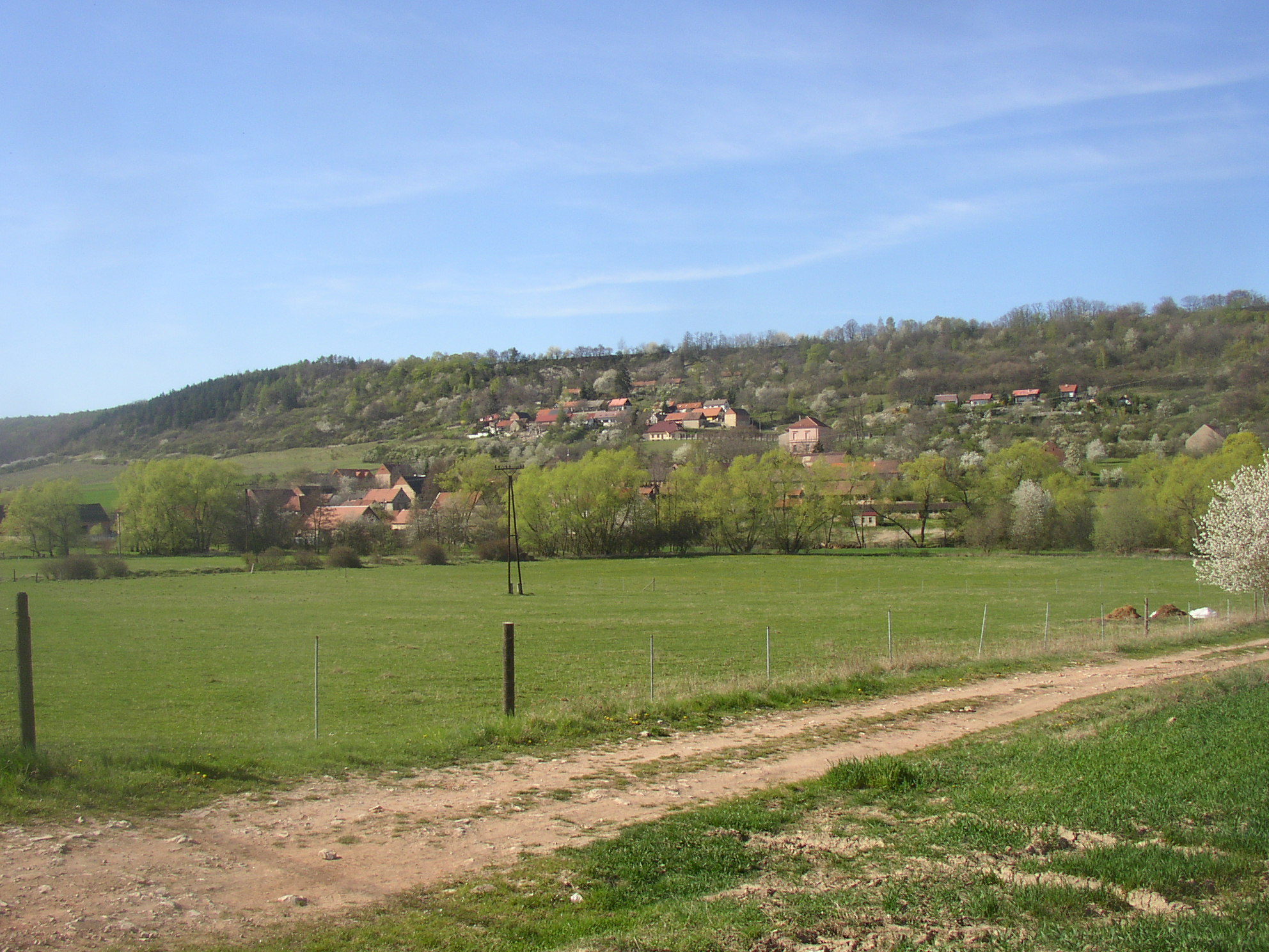 Village of Milý, Rakovník District, Czech Republic. General view from SE, from Srbeč - Milý road.